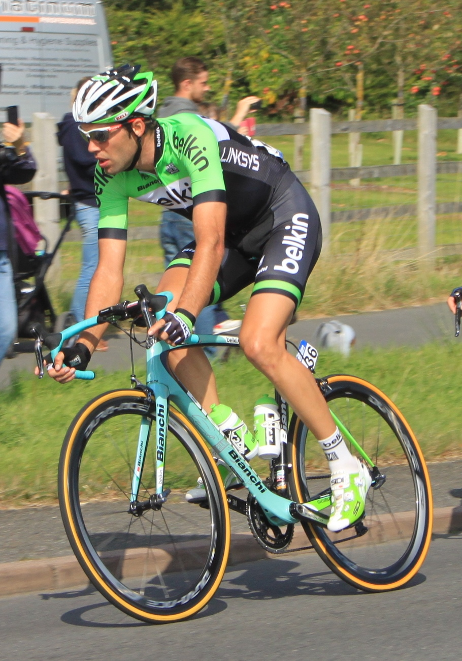 Maarten Wynants of the Belkin team speeds through Cockwood in Devon leading stage five of the 2014 Tour of Britain.